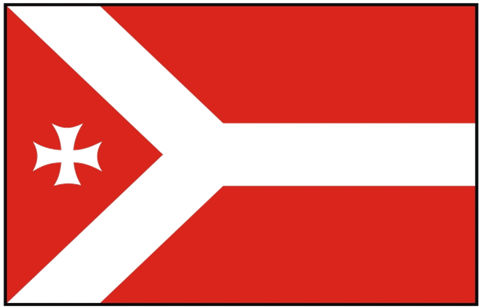 Flag of Khashuri